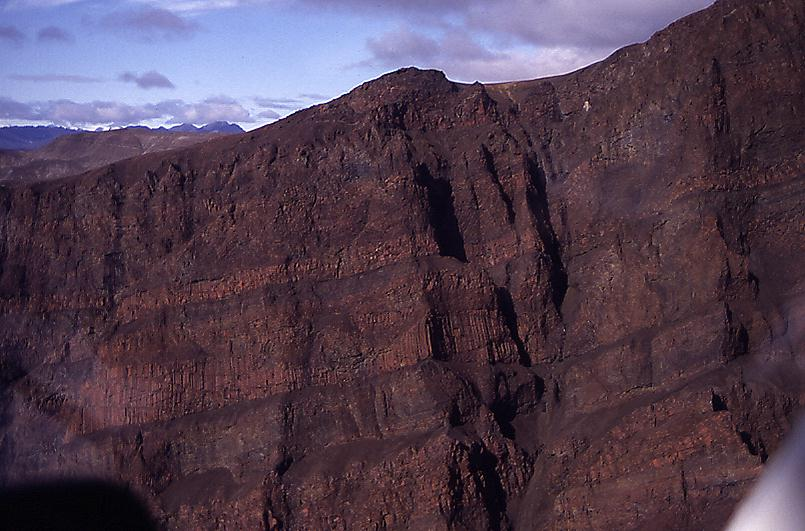 Dragon CliffsDragon Cliffs, Nunavut